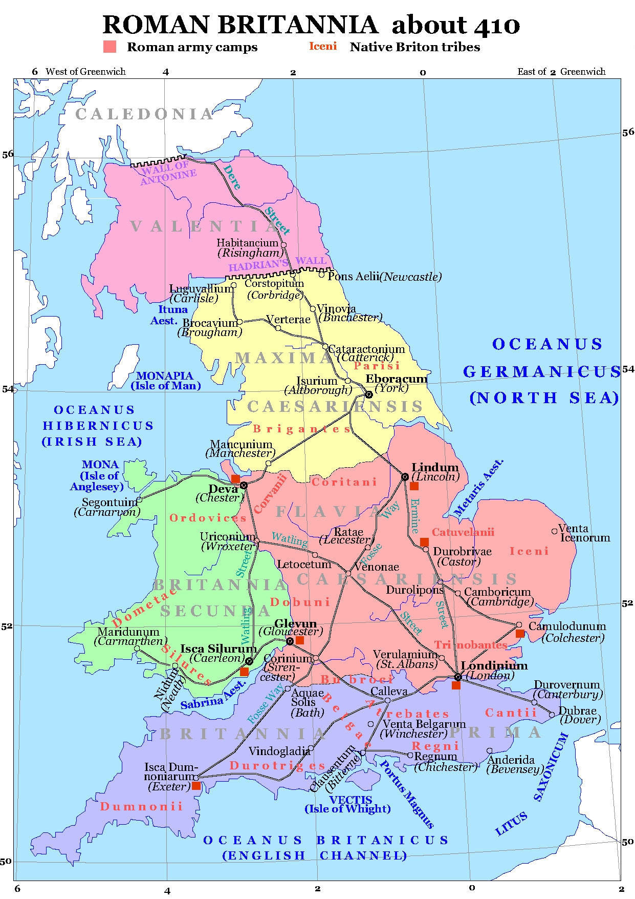 Roman Britannia about 410